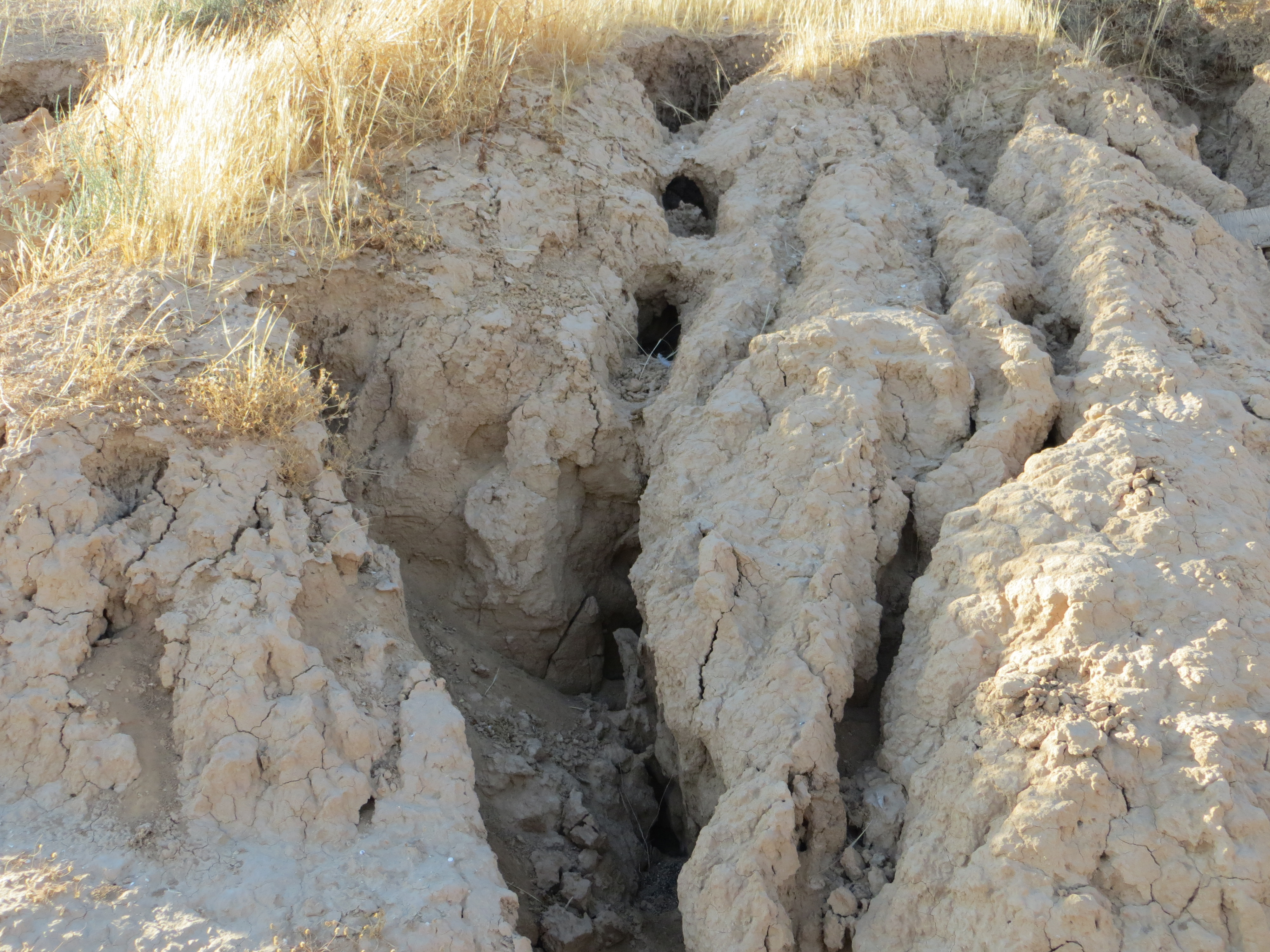 gully, northern Negev, Israel.